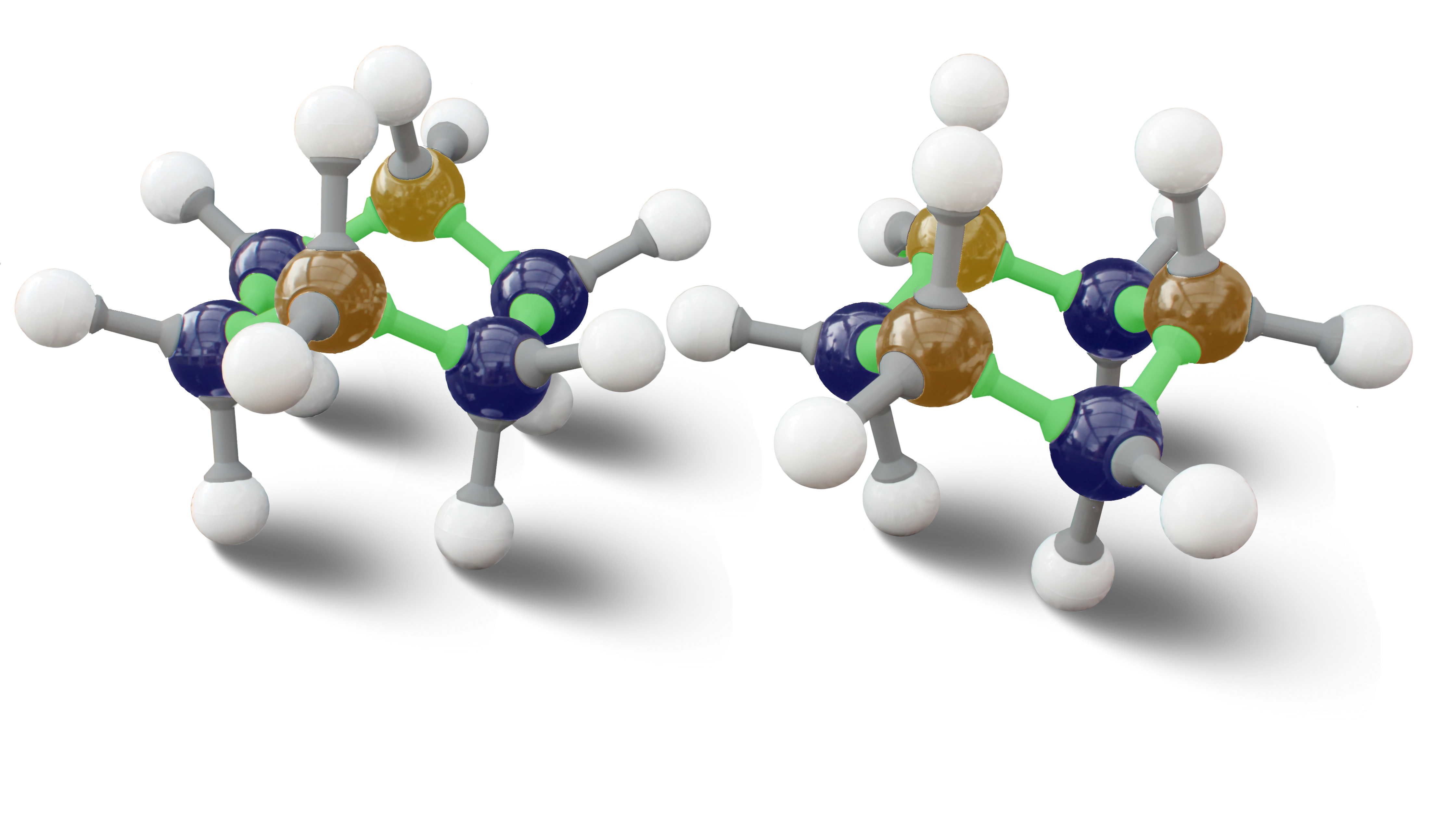 Molecular models of cyclohexane (C6H12) in the "boat" (left) and "chair" (right) conformations. The carbon atoms are colored amber and blue according to whether they lie above or below the mean plane of the ring, respectively. The C-C ring bonds are in light green, de C-H bonds in gray, and hydrogen atoms in white. Derived from a photo of models built with the Prentice Hall Molecular Model Set for General Organic Chemistry (File:Cyclohexane chair form AND boat form 8254.JPG, uploaded by User:Bin im Garten), heavily edited with the GNU/Linux Gimp image editor